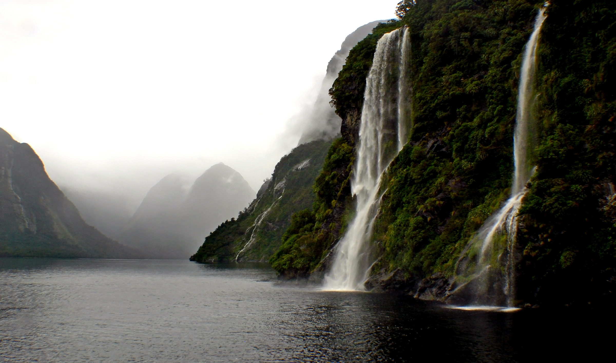 Doubtful Sound is a very large and naturally imposing fiord in Fiordland, in the far south west of New Zealand. It is located in the same region as the smaller but more famous and accessible Milford Sound